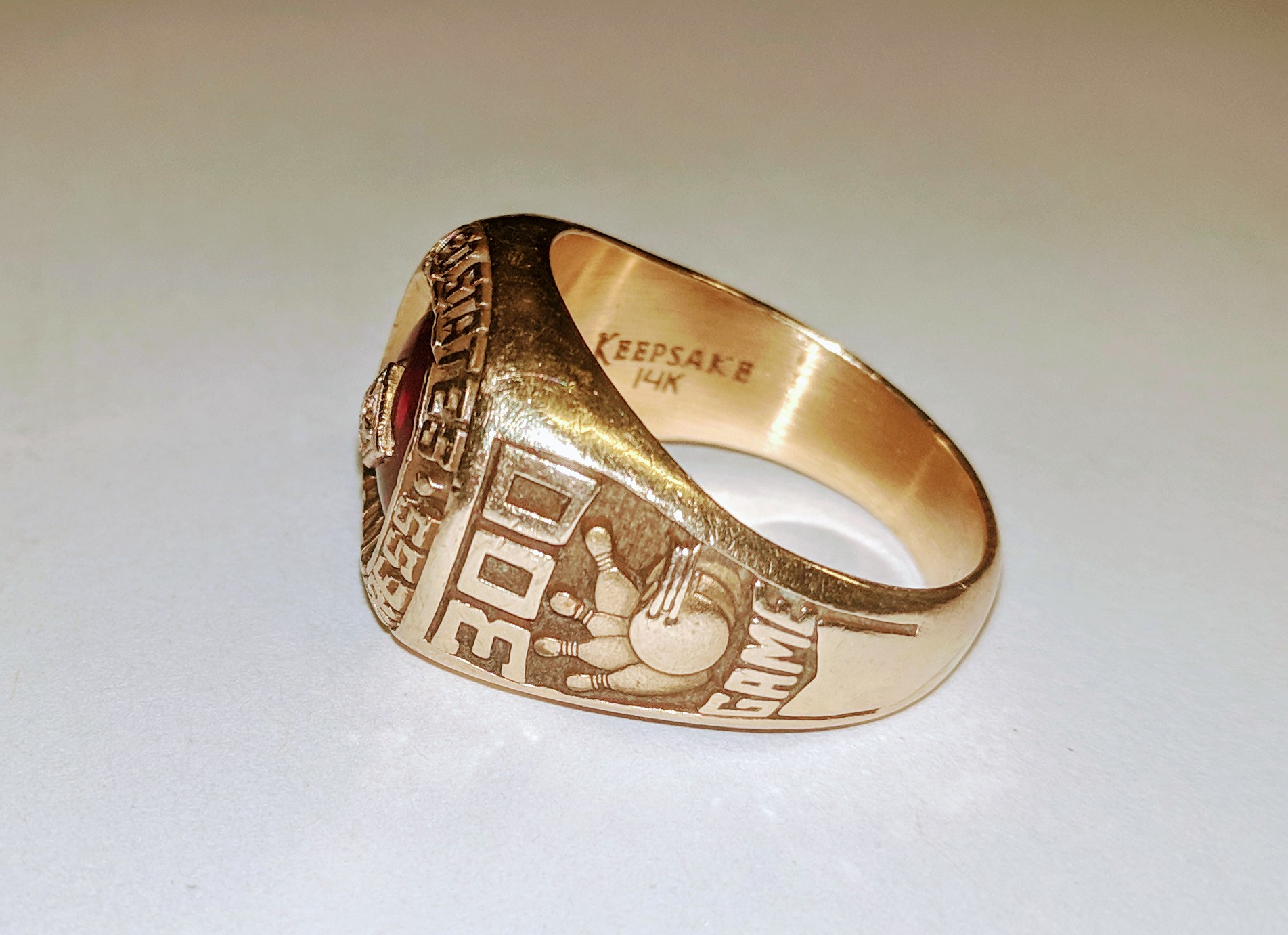 Gold ring bestowed on 300point game in league competition